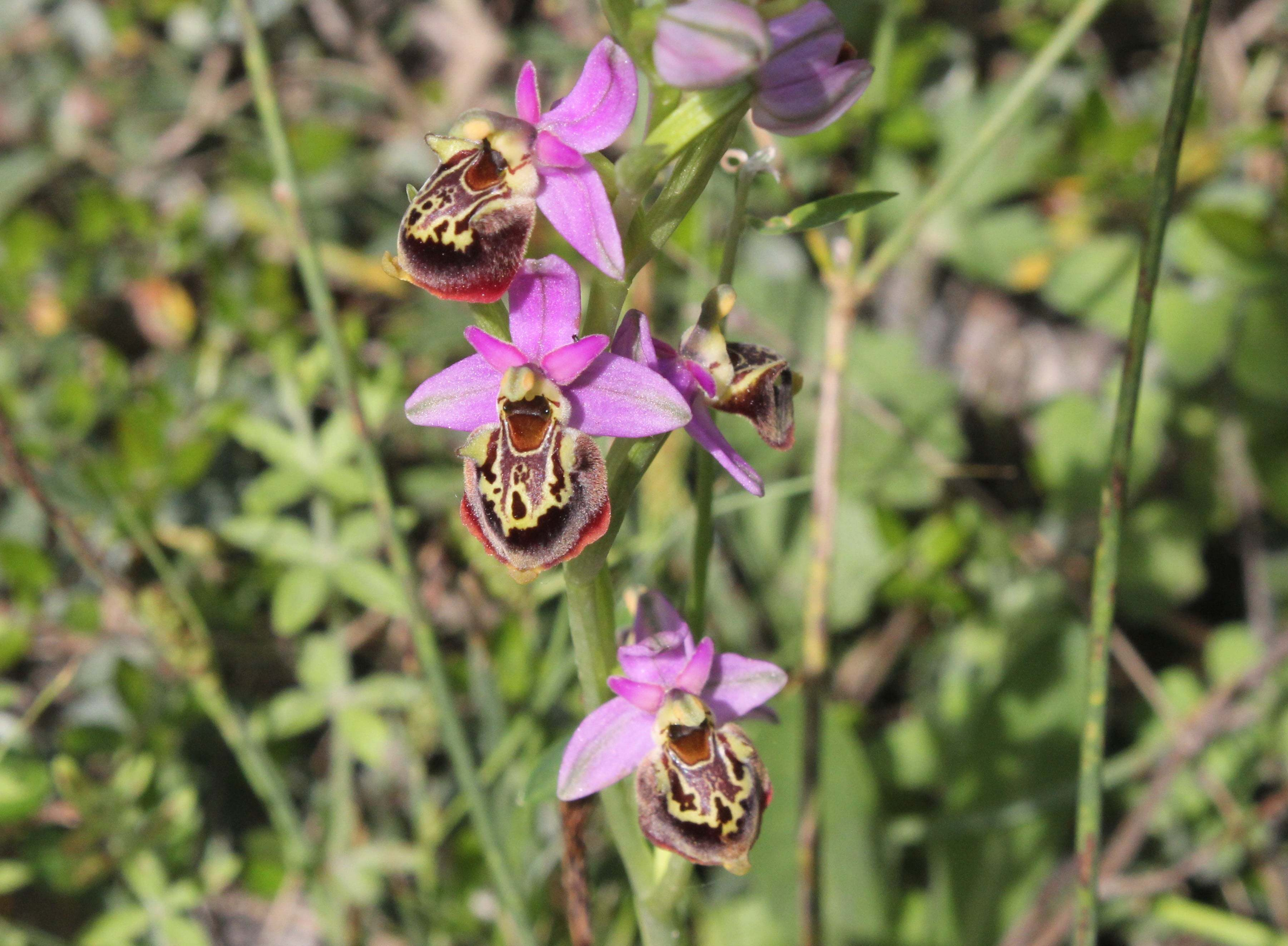 Ophrys × homeri raceme